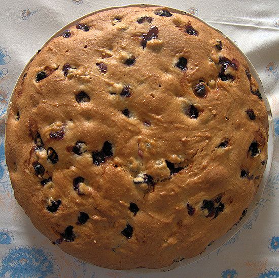 A cake Bertolina, typical sweet of Crema and surrounding area